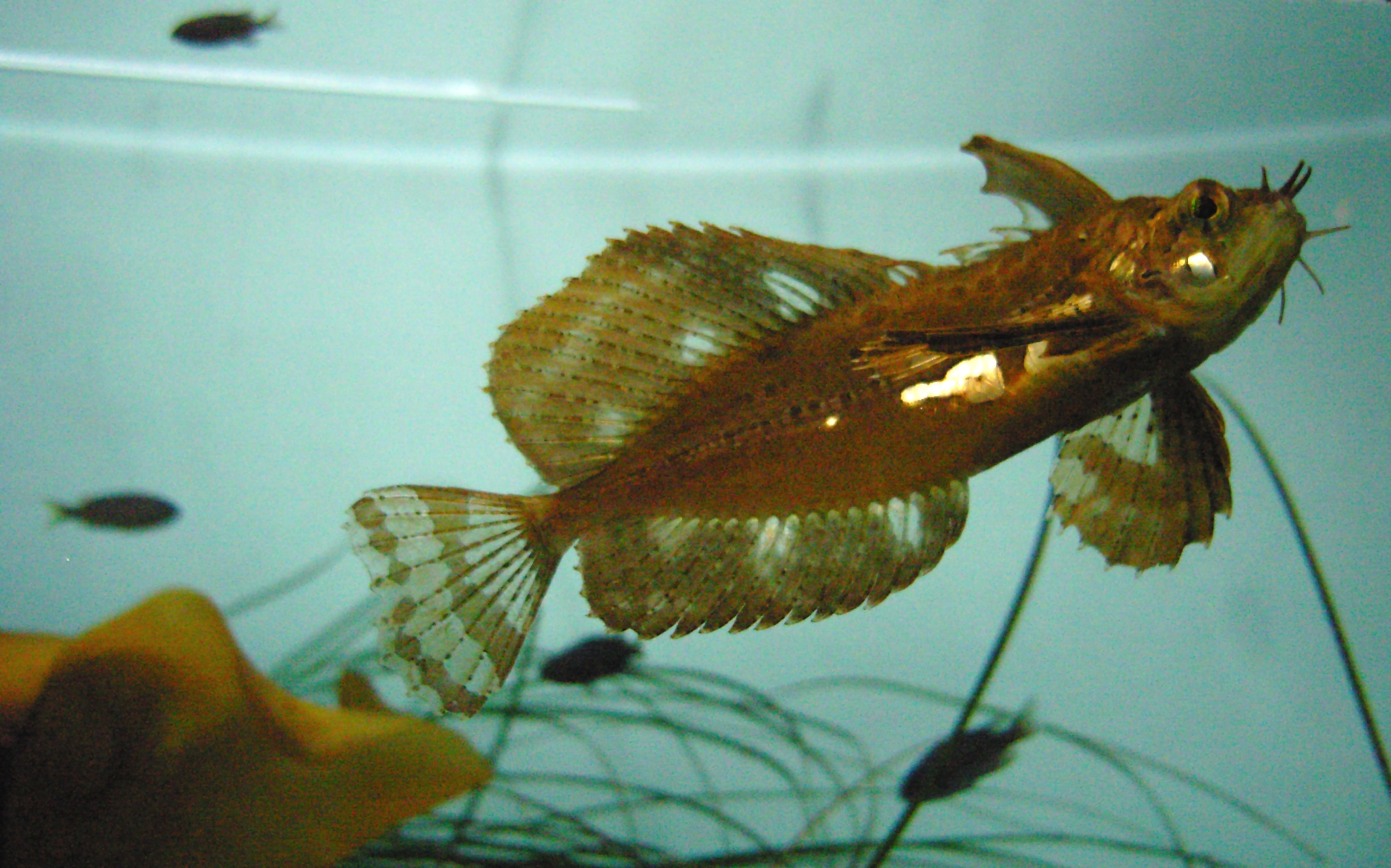 Photo of Blepsias cirrhosus (silverspotted sculpin) at Monterey Bay Aquarium, California.